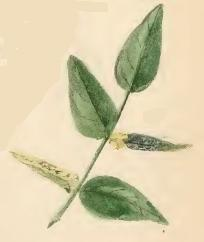 Stainton’s Natural History of the Tineina (1855–1873): Phyllonorycter nigrescentella mined leaf of Vicia sepium